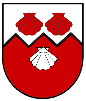 Coat of arms of Sigmarswangen in Sulz am Neckar